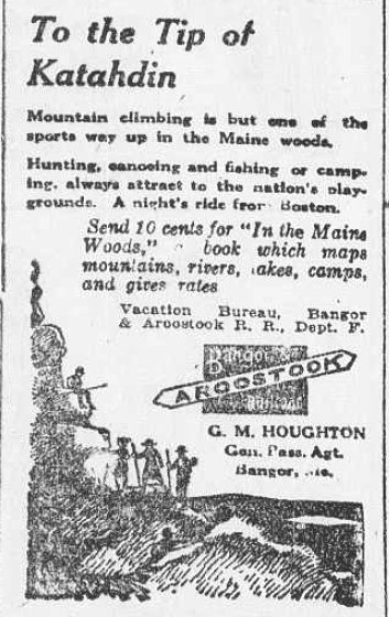 Ad promoting tourism in Maine via the Bangor and Aroostook Railroad. Cropped and lightened using GIMP.